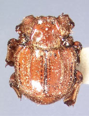 Haeterius tristriatus (Hetaeriinae: Coleoptera); California; dead specimen